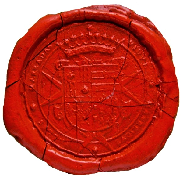 Baltasar Marradas personal sigil ≈ y.1630, Spanish nobleman, imperial field marshal, 1560 - 1638